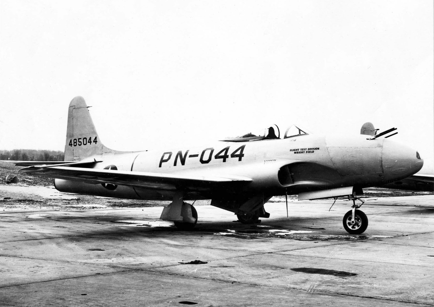 Lockheed P-80 with twin 12.7mm machineguns in oblique mount, similar to WW2 German 'schraege muzik' mount, to test ability to attack bombers from below